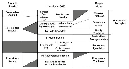 Diagram showing the correspondence between the Llambías (1966) stratigraphy and the one proposed in this work.